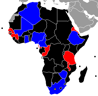 Qualified teams for the 2004 African Women's Championship, the sixth edition of the biennial football championship organised by the CAF.